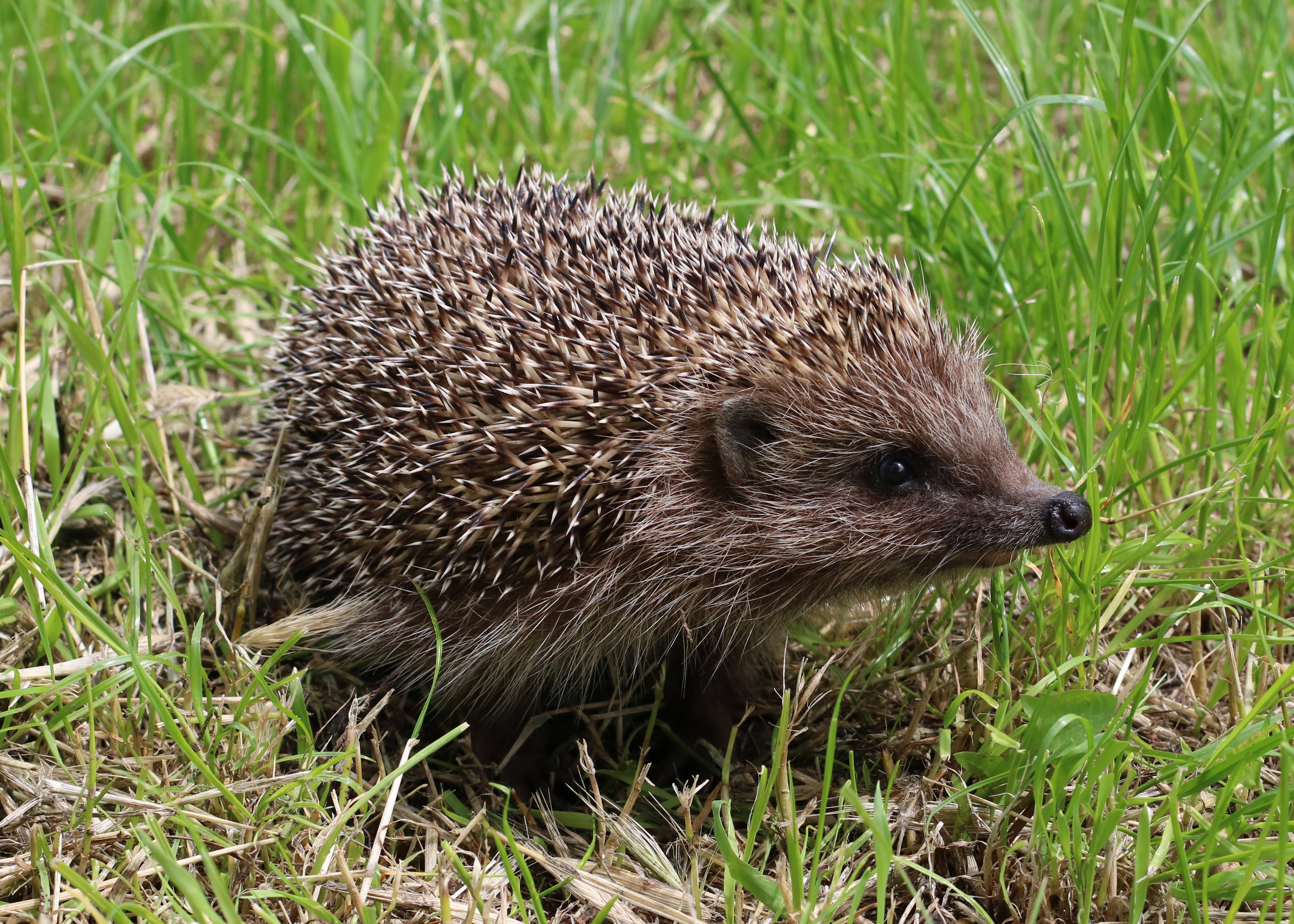 Northern white-breasted hedgehog. Ukraine. Photo taken in the wild.